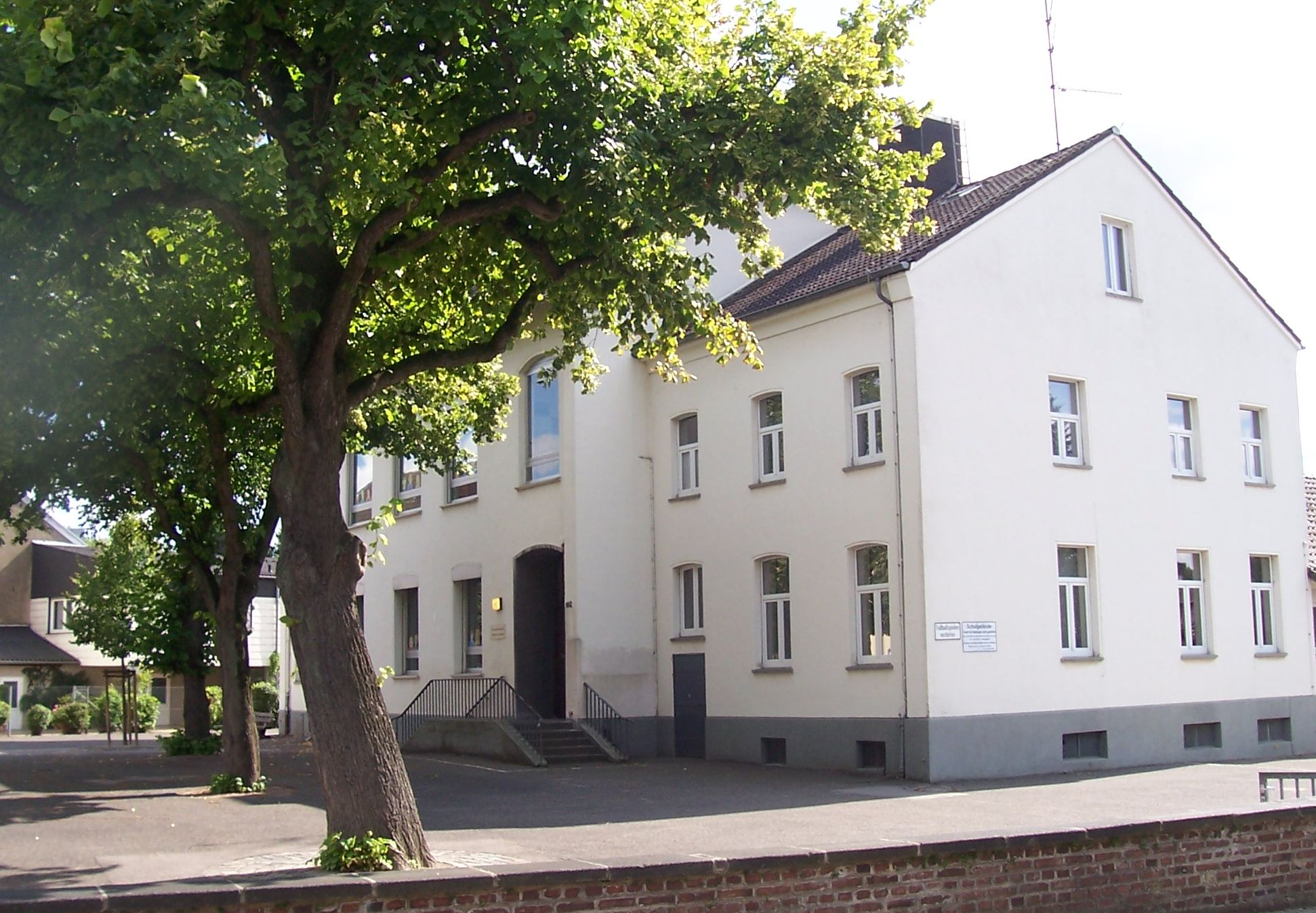 the primary school of Düren-Niederau